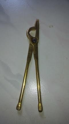 Indian antique peace